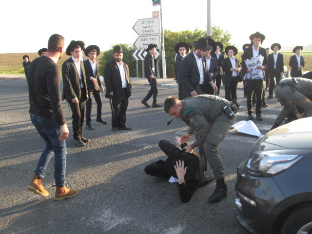 An Israeli police officer attacking and arresting a haredi young man demonstrating against recruitment to IDF of yeshiva scholars.